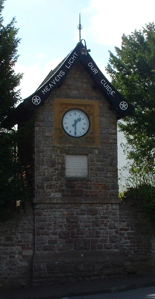 Clock Tower at East Harptree.